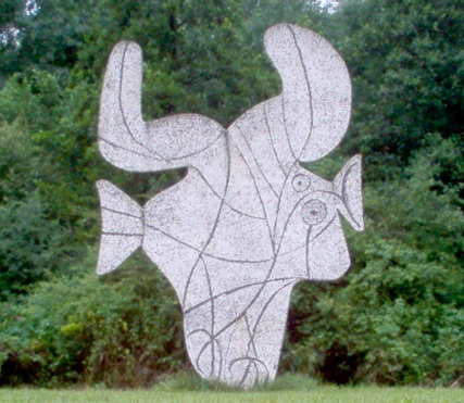 This is a statue by Picasso himself, in the Vondelpark in Amsterdam. Titel: Figure découpée L'Oiseau